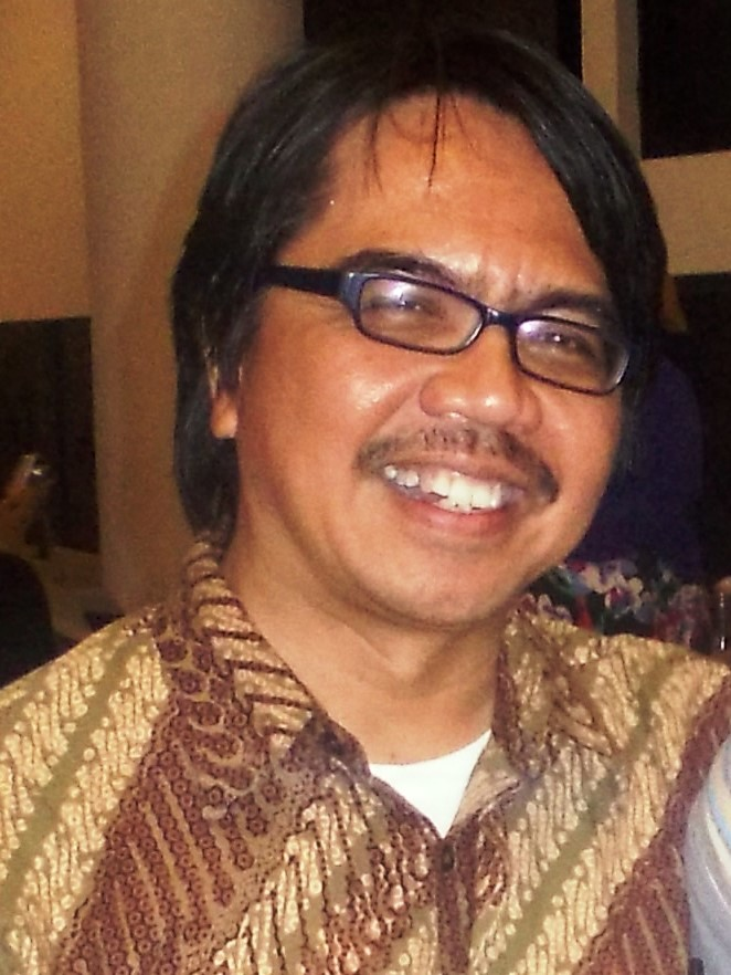 Ade Armando, Indonesian lecturer and communication expert.